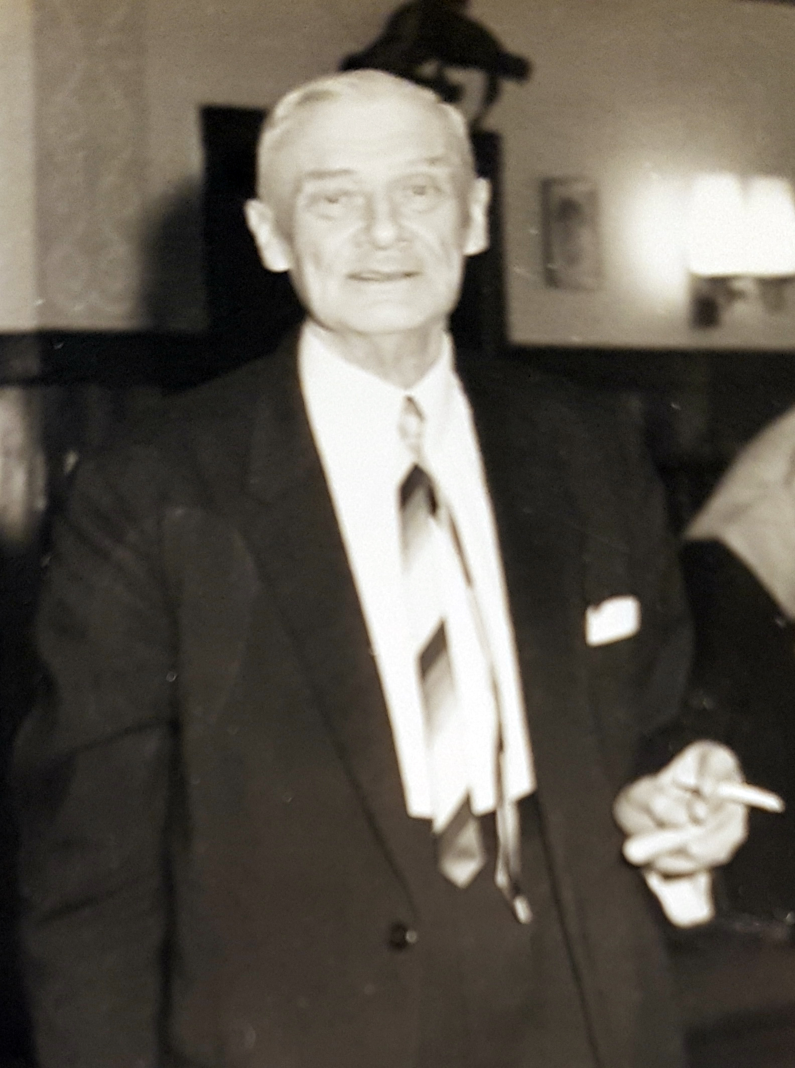 Professor Dr. Hans-georg Großmann during his farewell party in the clubhouse of the county hospital Brandenburg /Havel in 1973